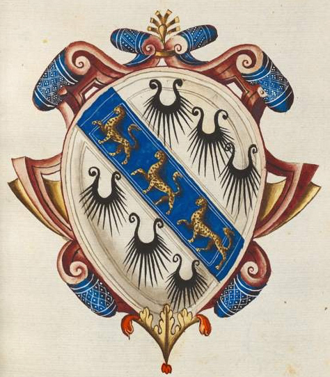 Coat of arms of the House of Barbarigo